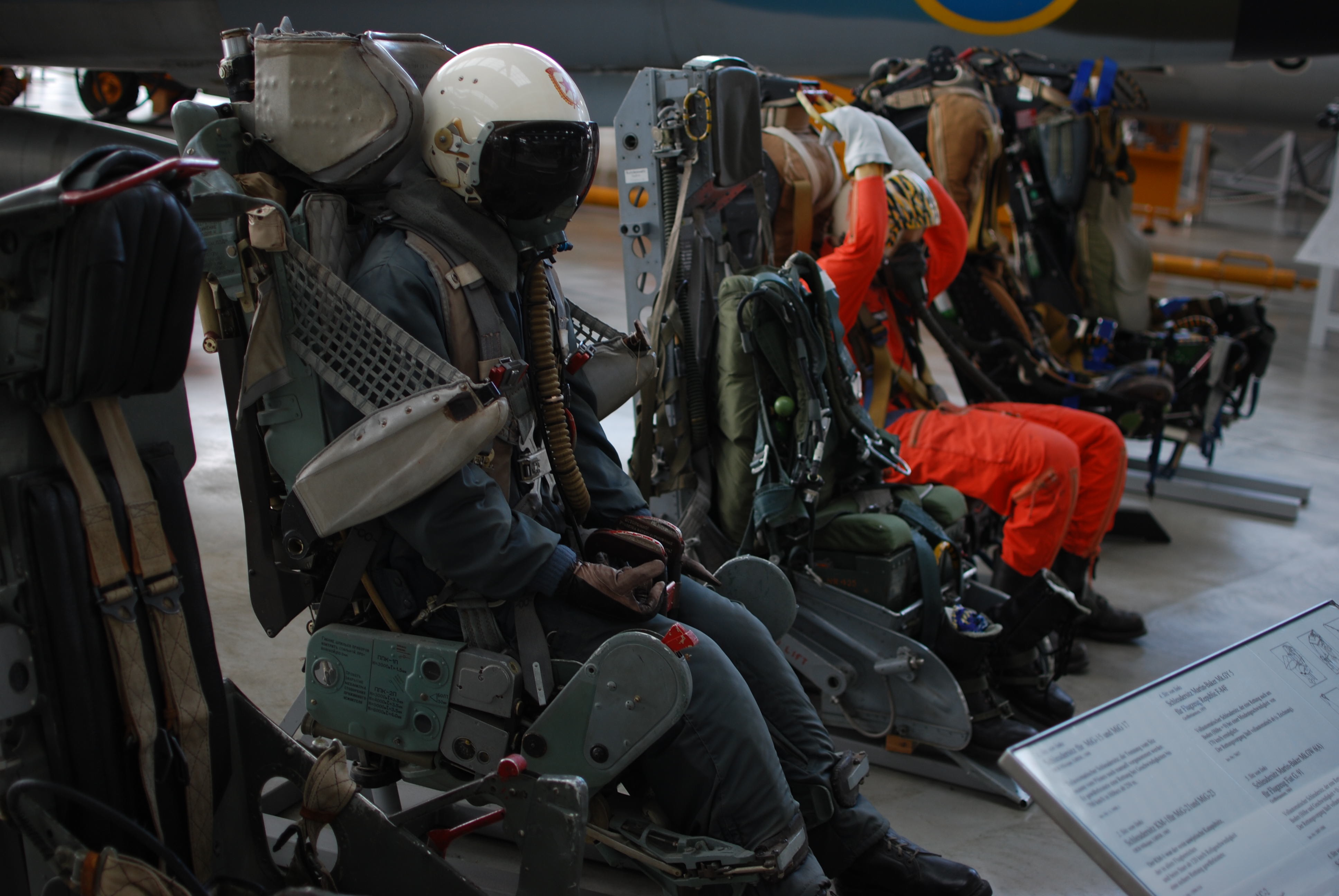 Ejection Seats